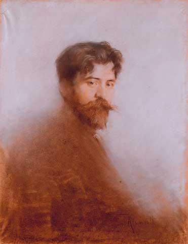 The portrait of dirigent Arthur Nikisch (1855—1922)